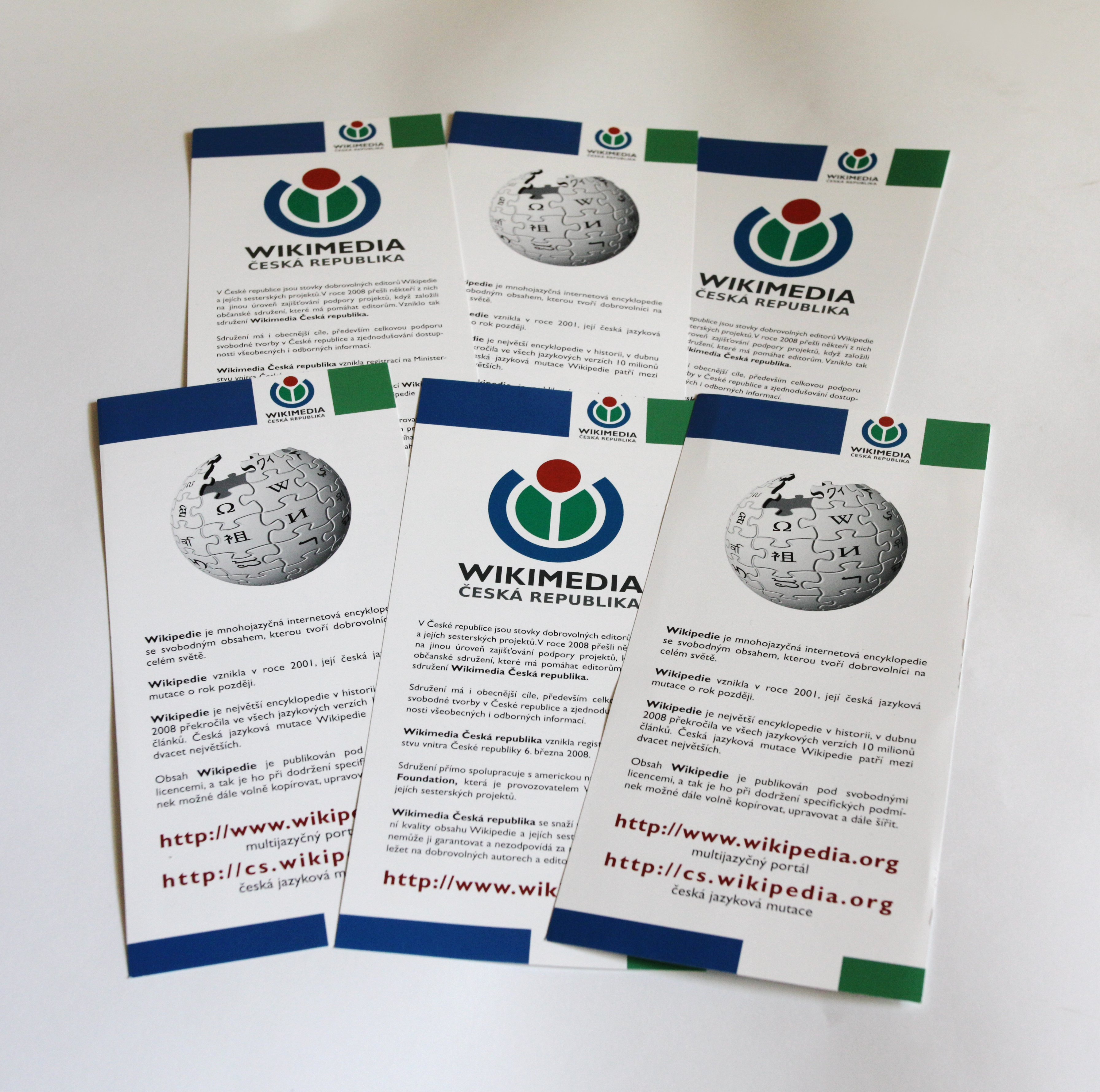 Wikimedia CZ leaflets.